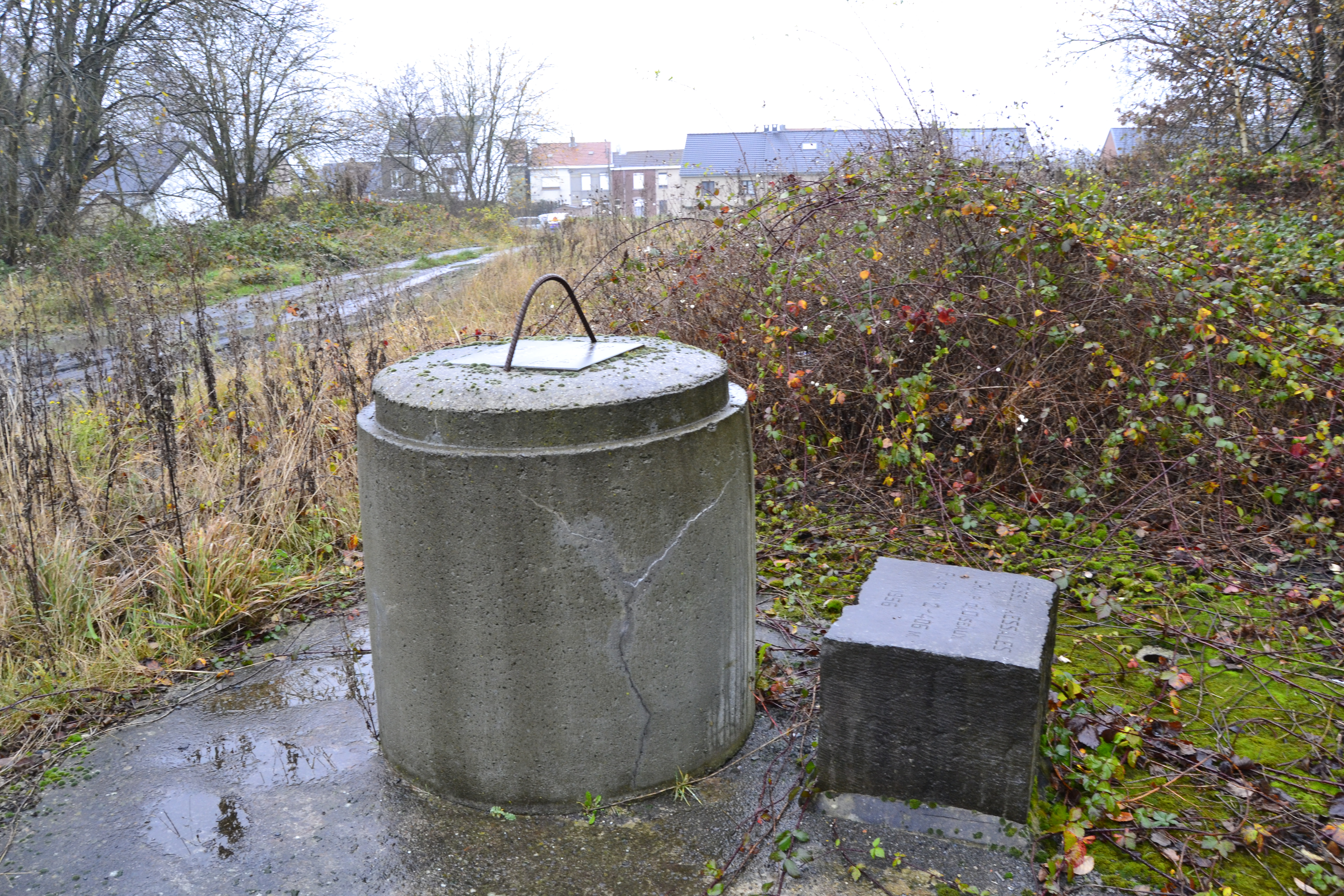 Ancient pit of the Champs d'Oiseaux coal mine, Pit 2, in Flémalle, Belgium